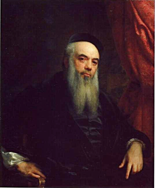 Painting of Francois Rude (1784-1855) by his wife Sophie Rude (Sophie Fremiet) (1797-1867) Huile sur toile - 100 x 81 cm